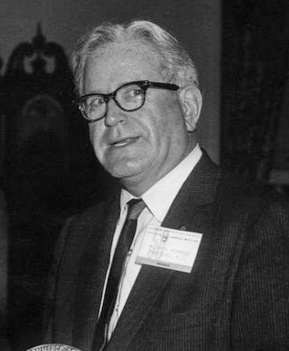 Accession Number: AR7189-C Title: AR7189-C. President John F. Kennedy with Mayor Walter H. Reynolds of Providence, Rhode Island Date(s) of Materials: 30 April 1962 Photographer: Rowe, Abbie, 1905-1967 Description: Mayor Walter H. Reynolds of Providence, Rhode Island shows President John F. Kennedy the Chamber of Commerce of the United States Grand Award for Fire Safety won by the Greater Providence Chamber of Commerce. Constitution Hall, Washington, D.C. Physical Description: 1 photographic print (black-and-white; 8 x 10 inches) Person(s): Kennedy, John F. (John Fitzgerald), 1917-1963 Reynolds, Walter H., 1901-1987 Organization(s): Chamber of Commerce of the United States of America. Place(s): Rhode Island Washington (D.C.) Folder Title: Address to the Annual Meeting of the Chamber of Commerce of the US, 10:00AM Series Name: Abbie Rowe (National Park Service). Series Number: 01. Collection: White House Photographs Copyright Status: Public Domain Credit Line: Abbie Rowe. White House Photographs. John F. Kennedy Presidential Library and Museum, Boston Digital Identifier: JFKWHP-AR7189-C